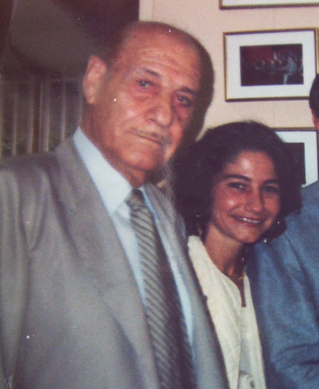 Photo of Pompeo D'Ambrosio inside the Banco Latino (Venezuela)